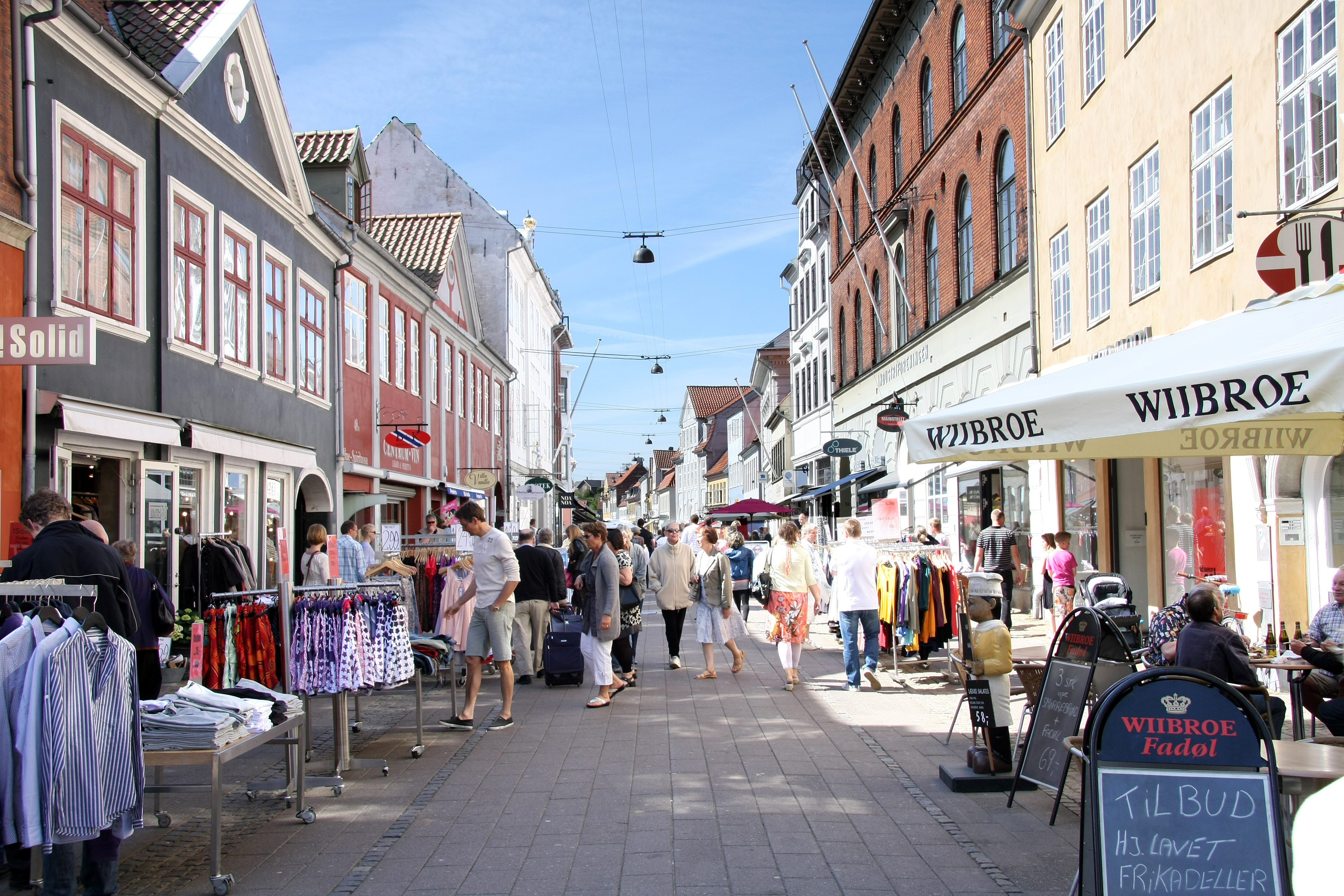 Stengade stroller street in Helsingør, Denmark